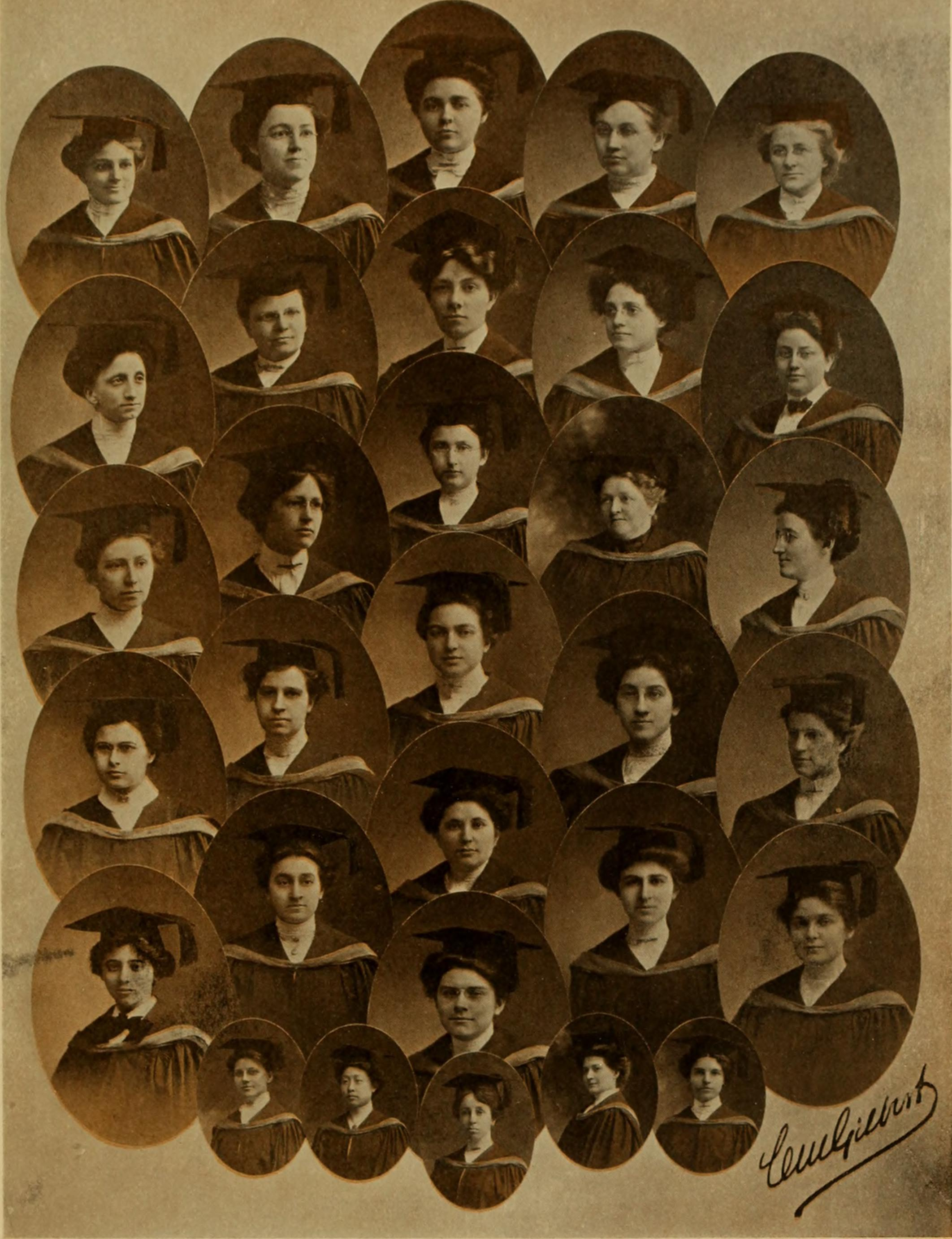 Title: Scalpel : the 1911 yearbook of the Woman's Medical College of Pennsylvania Year: 1911 (1910s) Authors: Woman's Medical College of Pennsylvania Subjects: Woman's Medical College of Pennsylvania Medical College of Pennsylvania Drexel University. College of Medicine Medicine--History Women in medicine Women medical students Yearbooks Publisher: (Philadelphia, PA : Woman's Medical College of Pennsylvania) Text Appearing Before Image: Class Motto In necessariis unitas; in dubiis libcrtas; in omnibus caritas.Class Flower—The Poppy Officers President—Dorris M. Pkesson*.Vice-President and Treasurer—Li Yuin Tsao.Secretary—Adelaide Ellsworth. S8 Text Appearing After Image: '